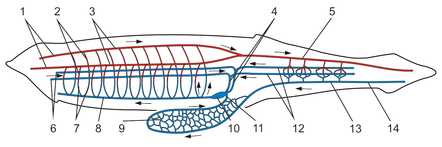 Lancelet’s circulatory system scheme